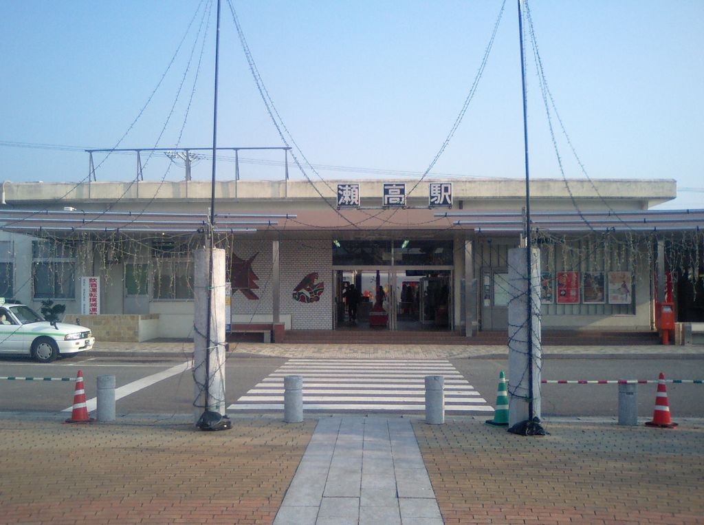 Setaka Station, Miyama City, Fukuoka, Japan